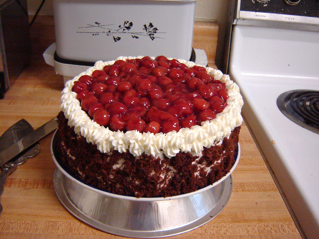 A Black Forest cake.